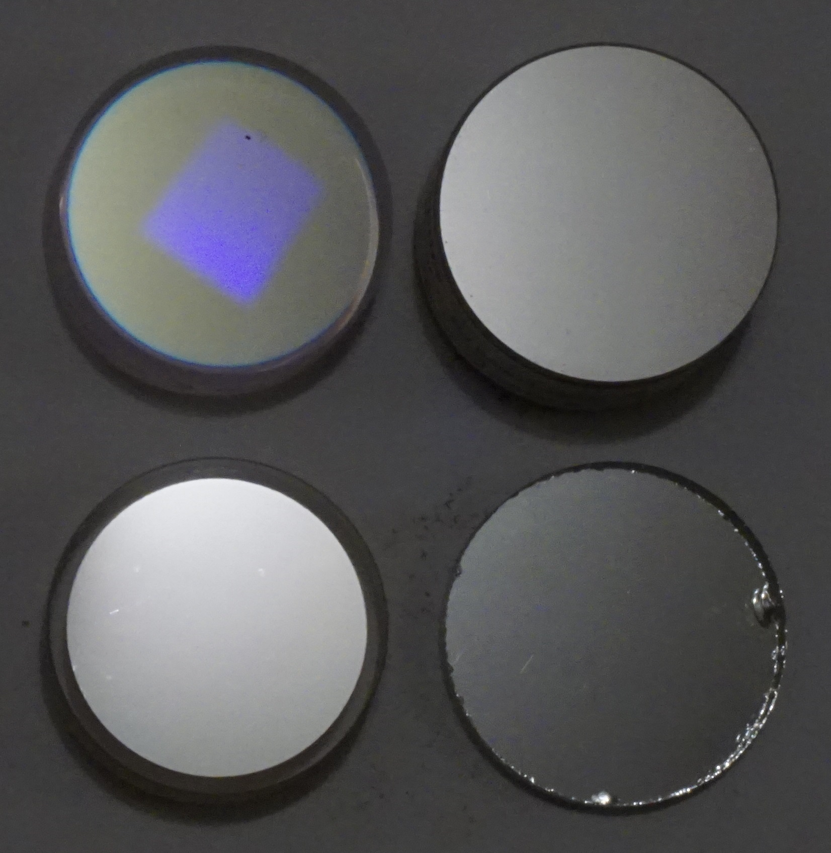 Four different mirrors, each measuring about 1 inch in diameter, showing the difference in reflectivity. Clockwise from the upper left: Dielectric mirror (75--80% reflective between 500 and 600 nm), aluminum coated (85--90% reflective), chromium plated (~ 25% reflective), and enhanced silver (99.9% reflective). Three are first-surface mirrors with a flatness of λ/20. The chrome mirror is a second-surface mirror made of plate glass, cut from an automotive mirror. Note: The exposure time and aperture settings of the camera were reduced to avoid overexposure and accurately demonstrate reflectivity. For example, the mirrors are all sitting upon white paper as a reference. Although attempts were made to keep the lighting centered between the mirrors so that they only reflect the white ceiling, the dielectric mirror is on a three-degree wedge prism. Thus, a ghost reflection of the LED light-bulb is clearly visible from the uncoated second-surface, which transmits back through the mirror-coating as if it were an antireflection-coating.